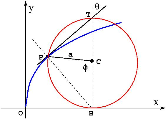 Figure explaining curve equations for cycloid and properties of its tangent.